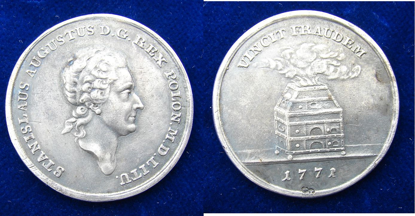 Copy of a very rare Polish pattern coin. D.= 34 mm. 13.72 g Ag Stanisław August Poniatowski, 1764- 1795 Head r., around: "STANISLAUS AUGUSTUS D.G. REX POLON.M.D.LITU."/ Smoke over altar, curved above: "VINCIT FRAUDEM", date in exergue. KM Pn 104. Gumowski 2423. Condition: EXTREMELY FINE